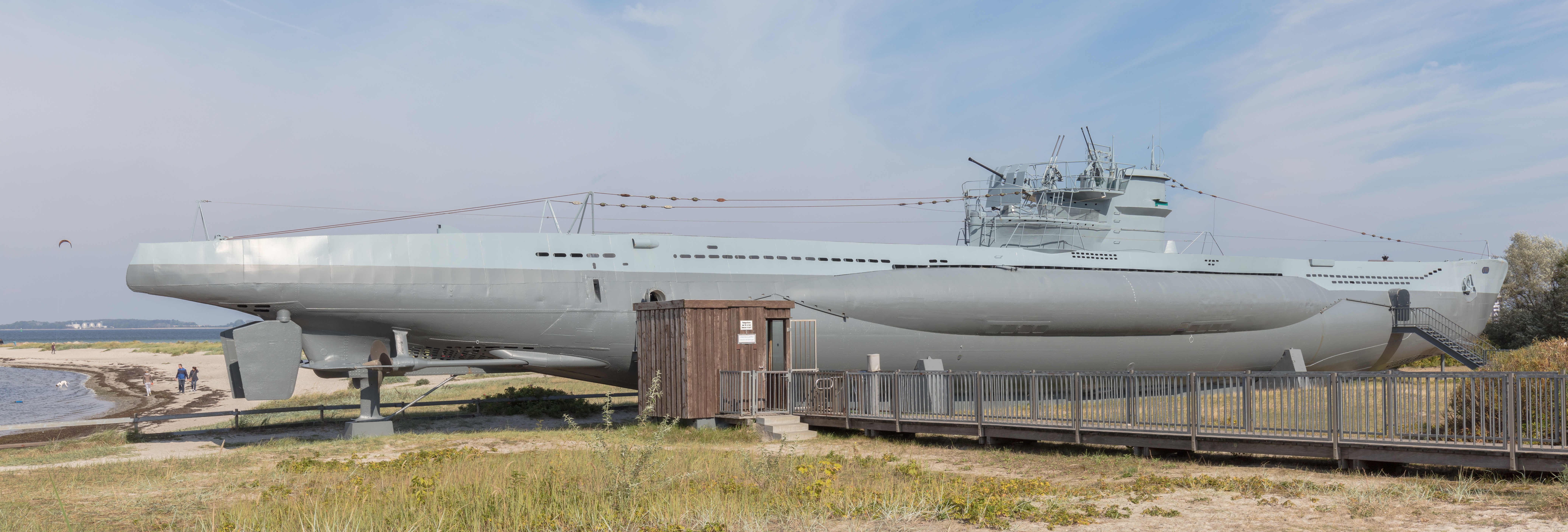 U995 Submarine, Kiel, Germany